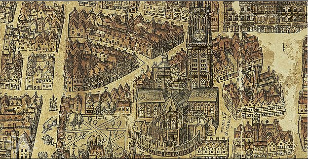 The unfinished larger choir for the Antwerp Cathedral. Taken from the Vergilius Bononiensis map of 1565.